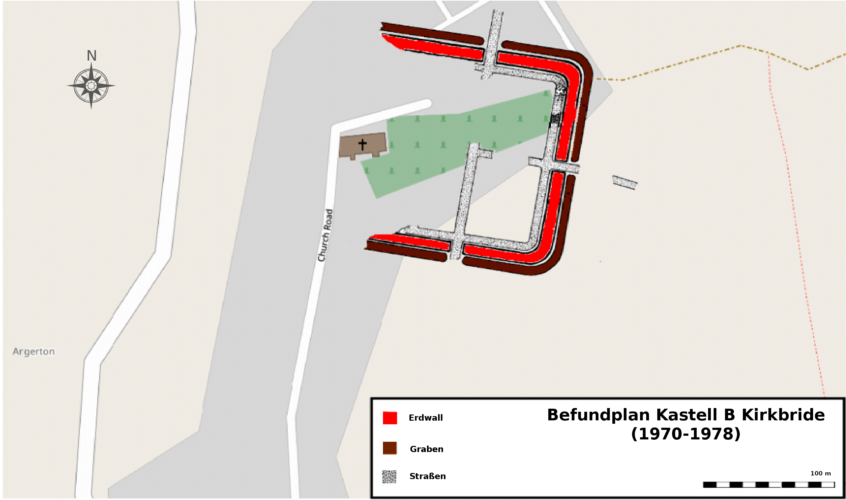 THE TRAJANIC FORT AT KIRKBRIDE, Excavation-Plan 1976, 1977 and 1978.